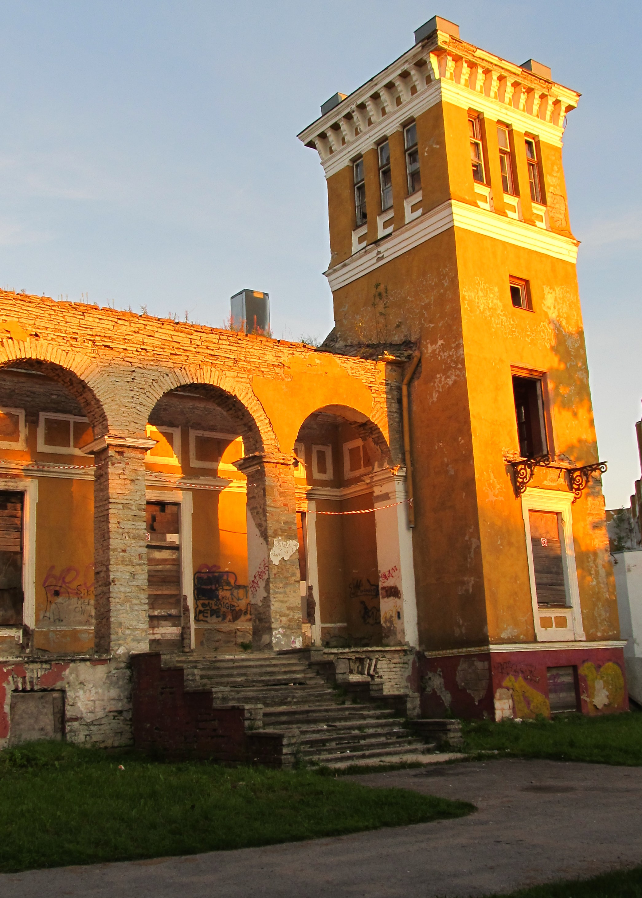 Ruins of Muraste manor from the back